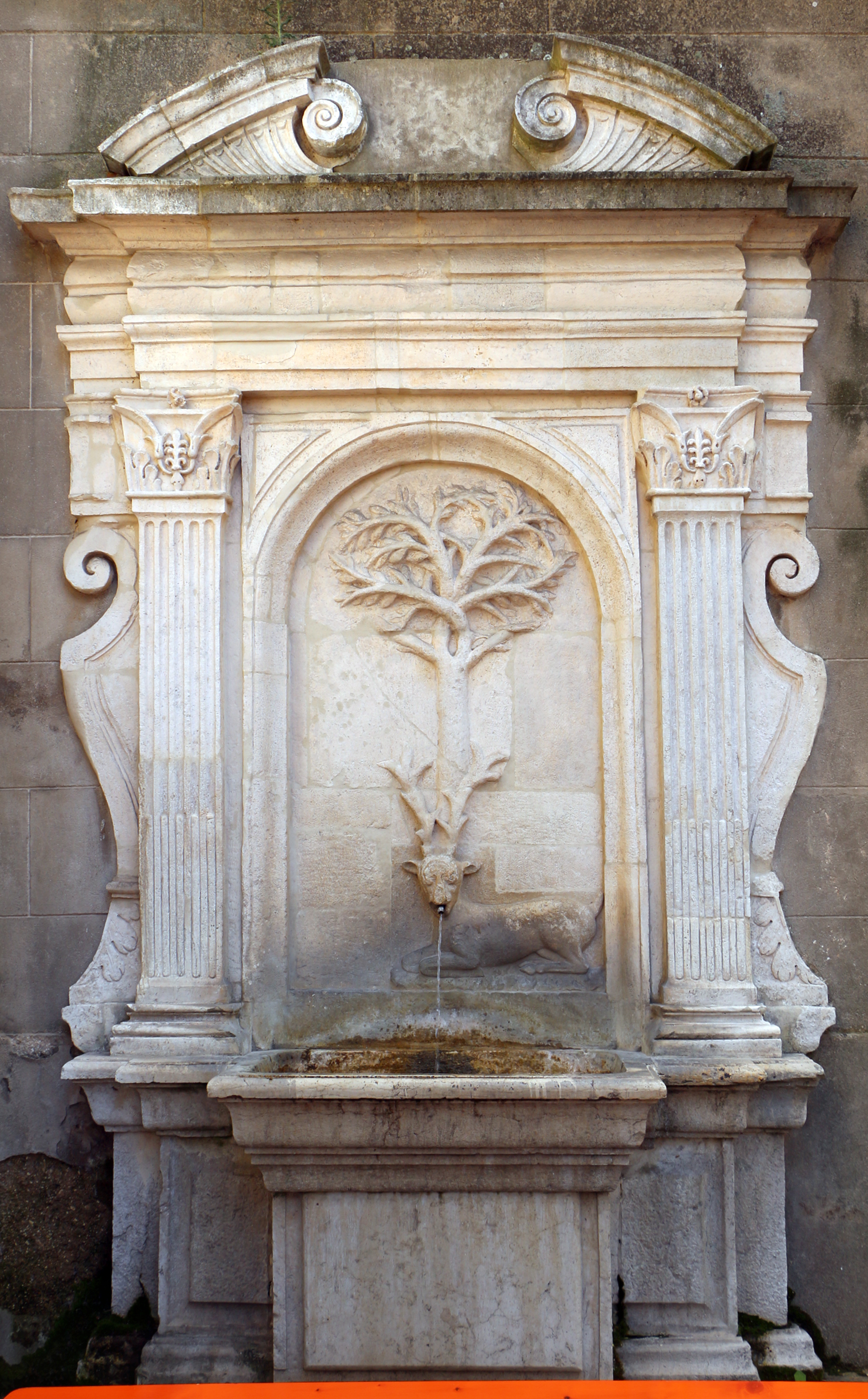 Cingoli